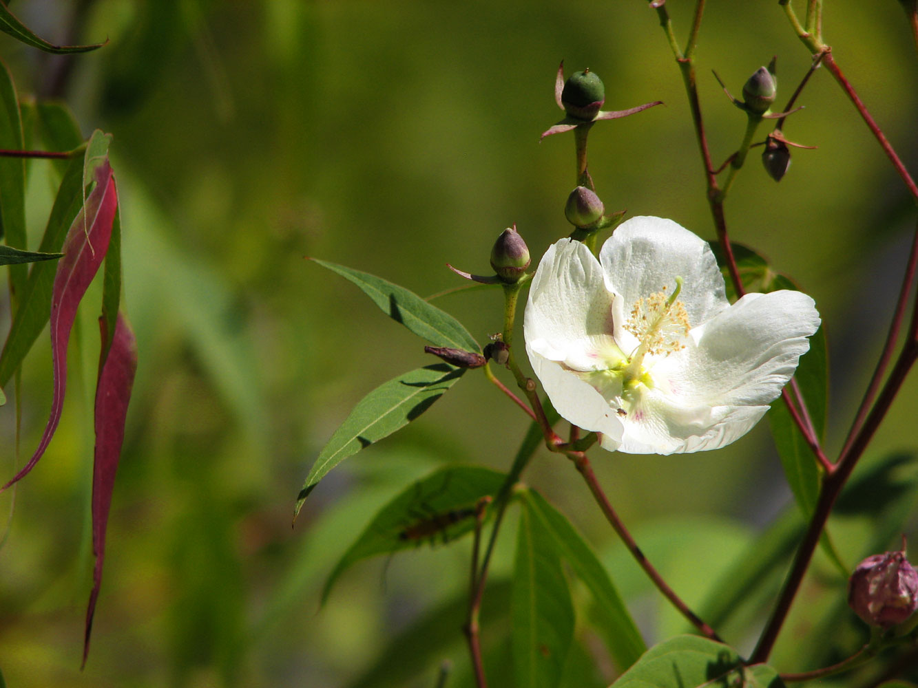 Gossypium thurberi. Molino Basin, Santa Catalina Mountains, Pima County, Arizona, USA. 20 September 2008. One of my favorite plants. Grows in the most beautiful places on Earth.